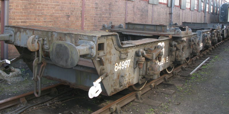 The rake of four GWR diagram A6 'Pollen' wagons at Didcot Railway centre, England. These wagons worked in pairs to carry exceptionally large loads. The pair nearest the camera is 84997 and 85000.